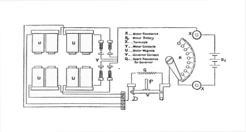 Mouse mill motor, circuit (Rankin Kennedy, Electrical Installations, Vol V, 1903).jpg